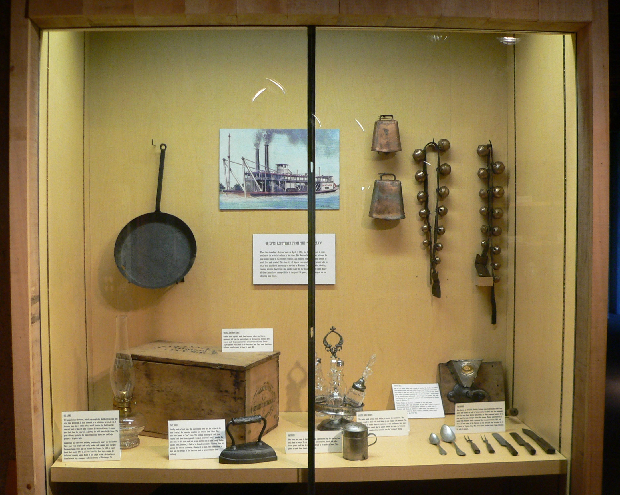 Artifacts recovered from the steamboat Bertrand, displayed in the visitor center at DeSoto National Wildlife Refuge, on the Nebraska-Iowa border east Blair, Nebraska.